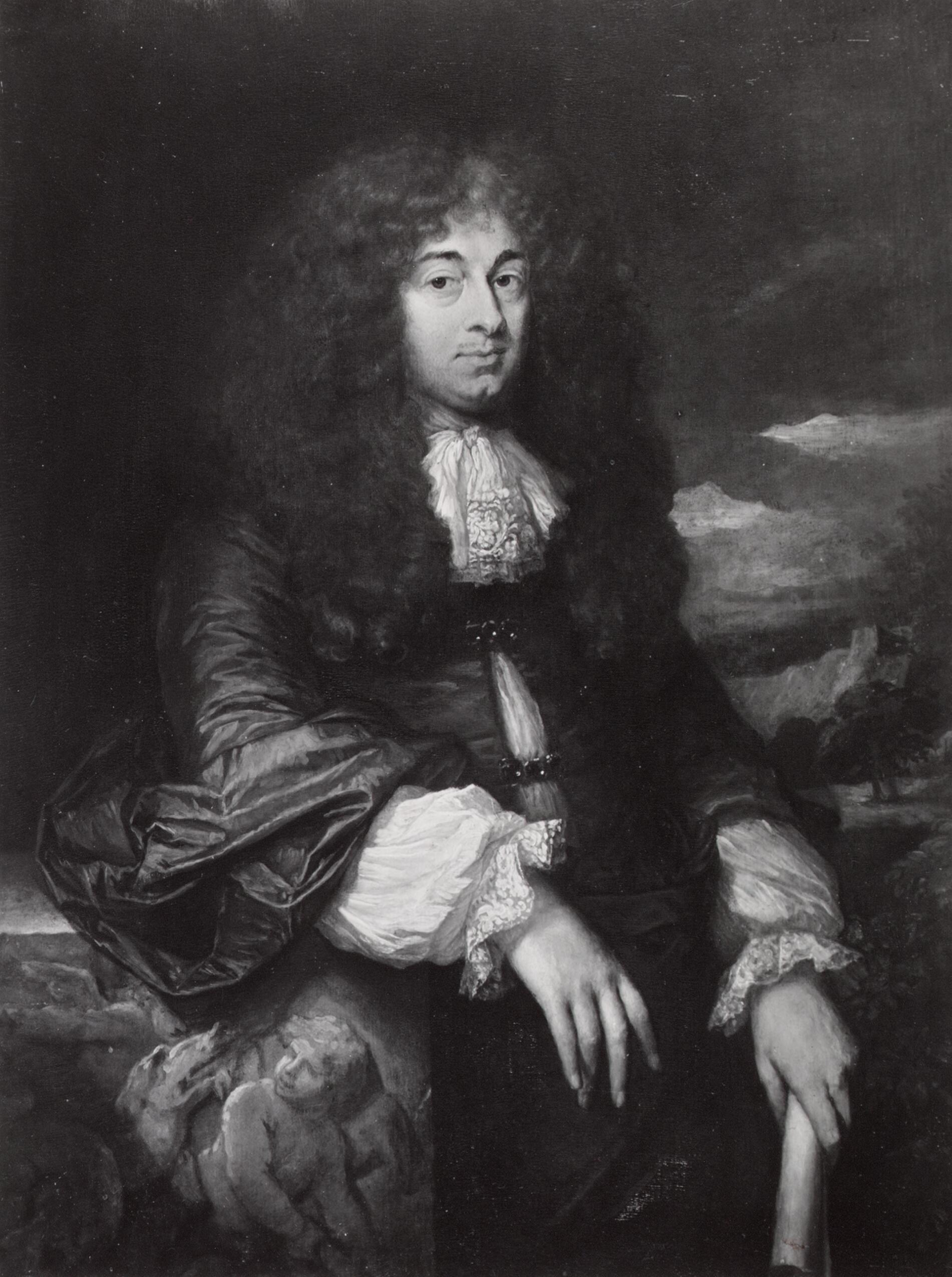 Portrait of Philips Doublet (1633-1707), made by Caspar Netscher in 1667.